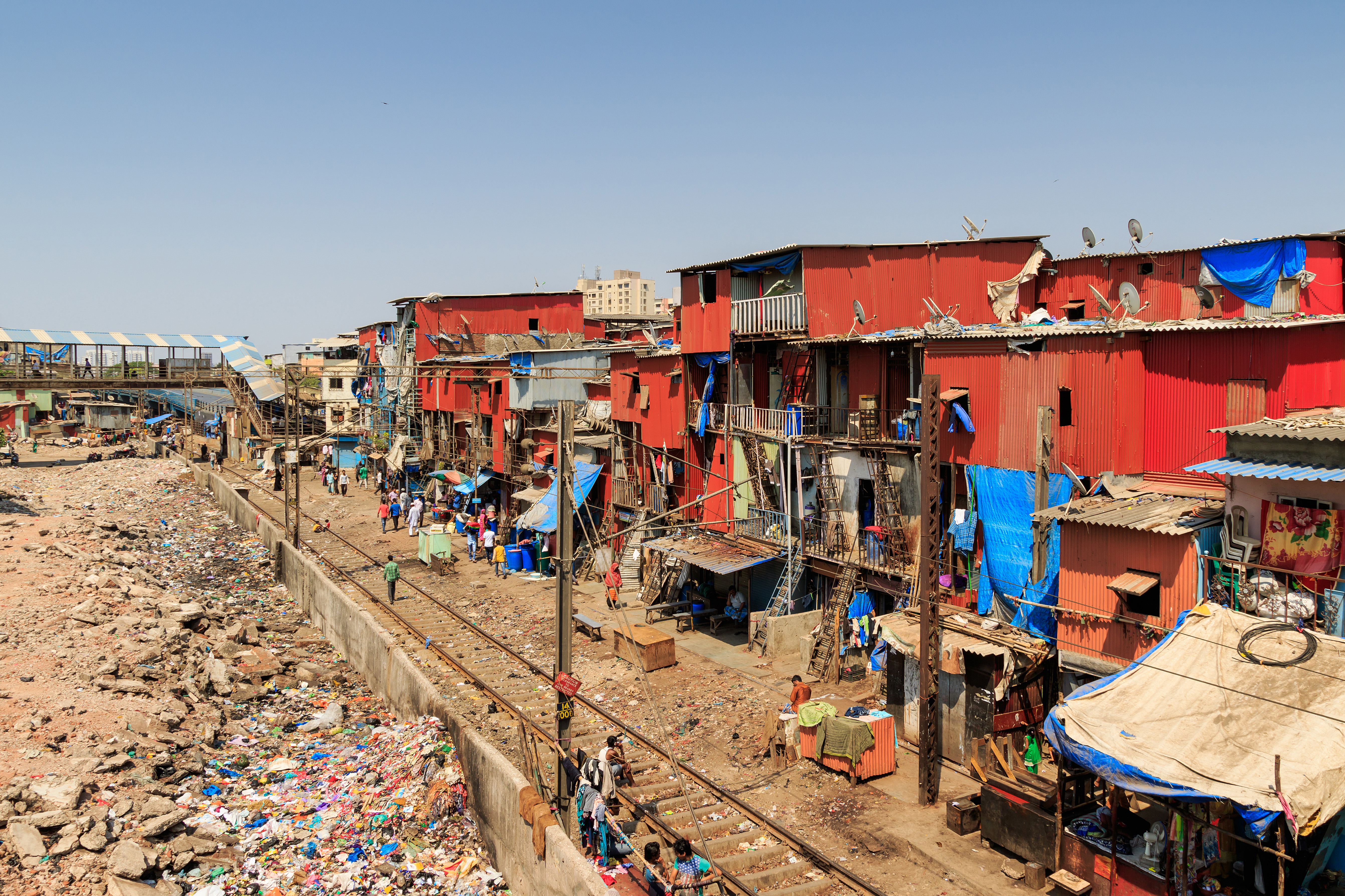 Near surroundings of Bandra railway station in Mumbai, India